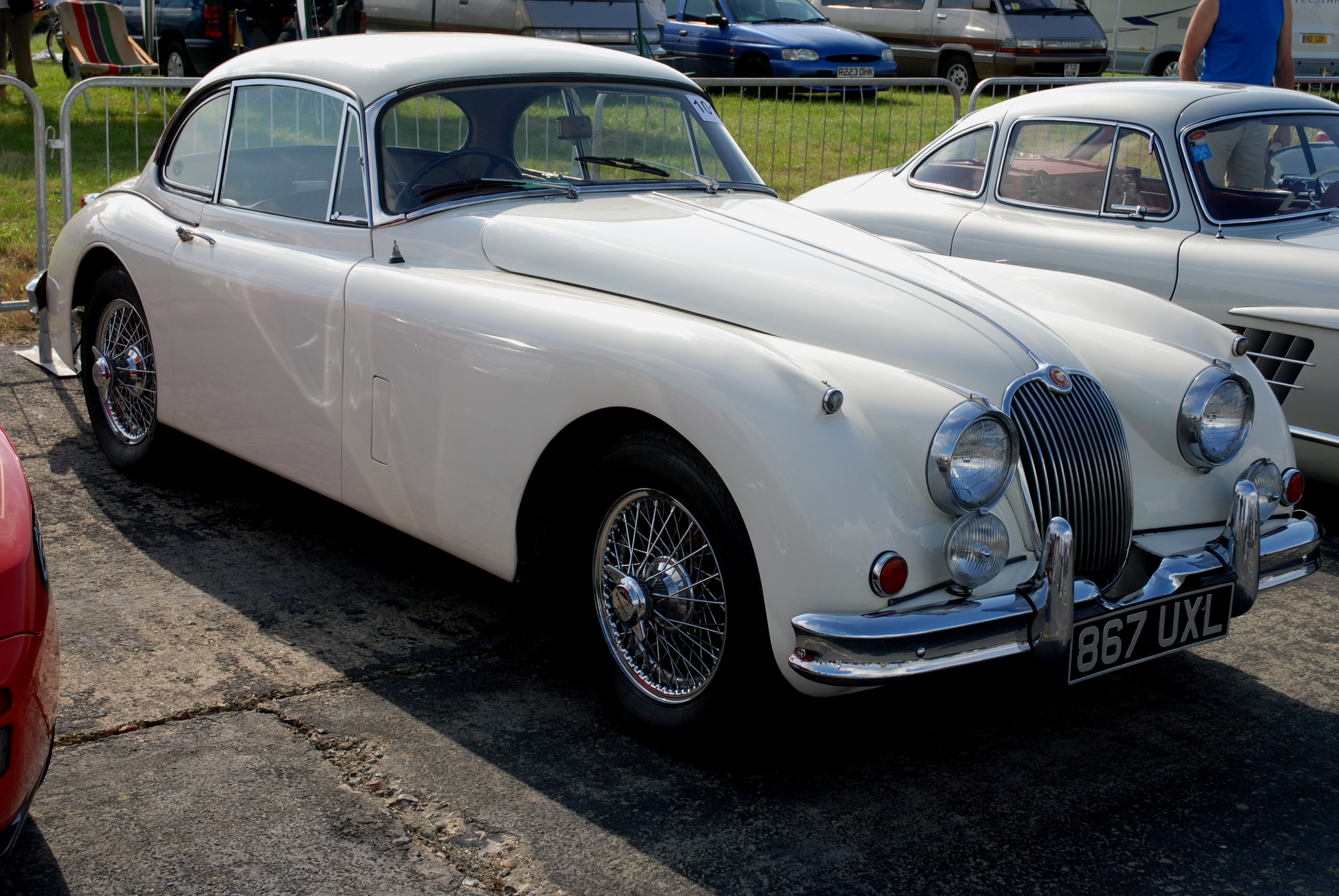 reg 10 September 1959, 3442cc@ Dunsfold Wheels and Wings 2007